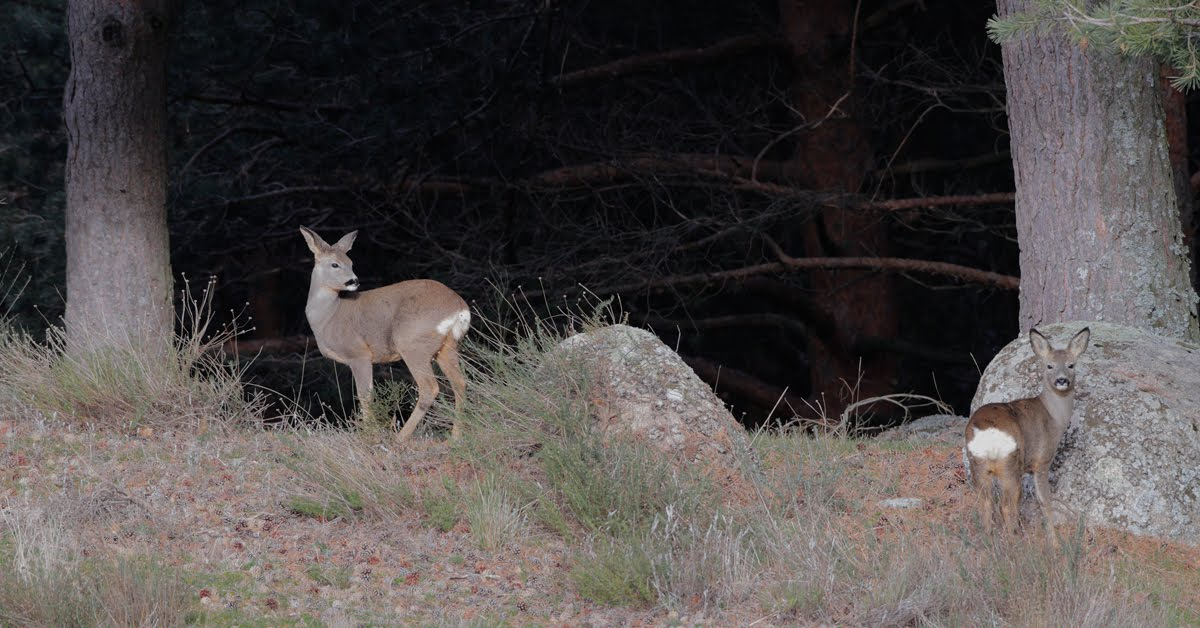 Roe Deer